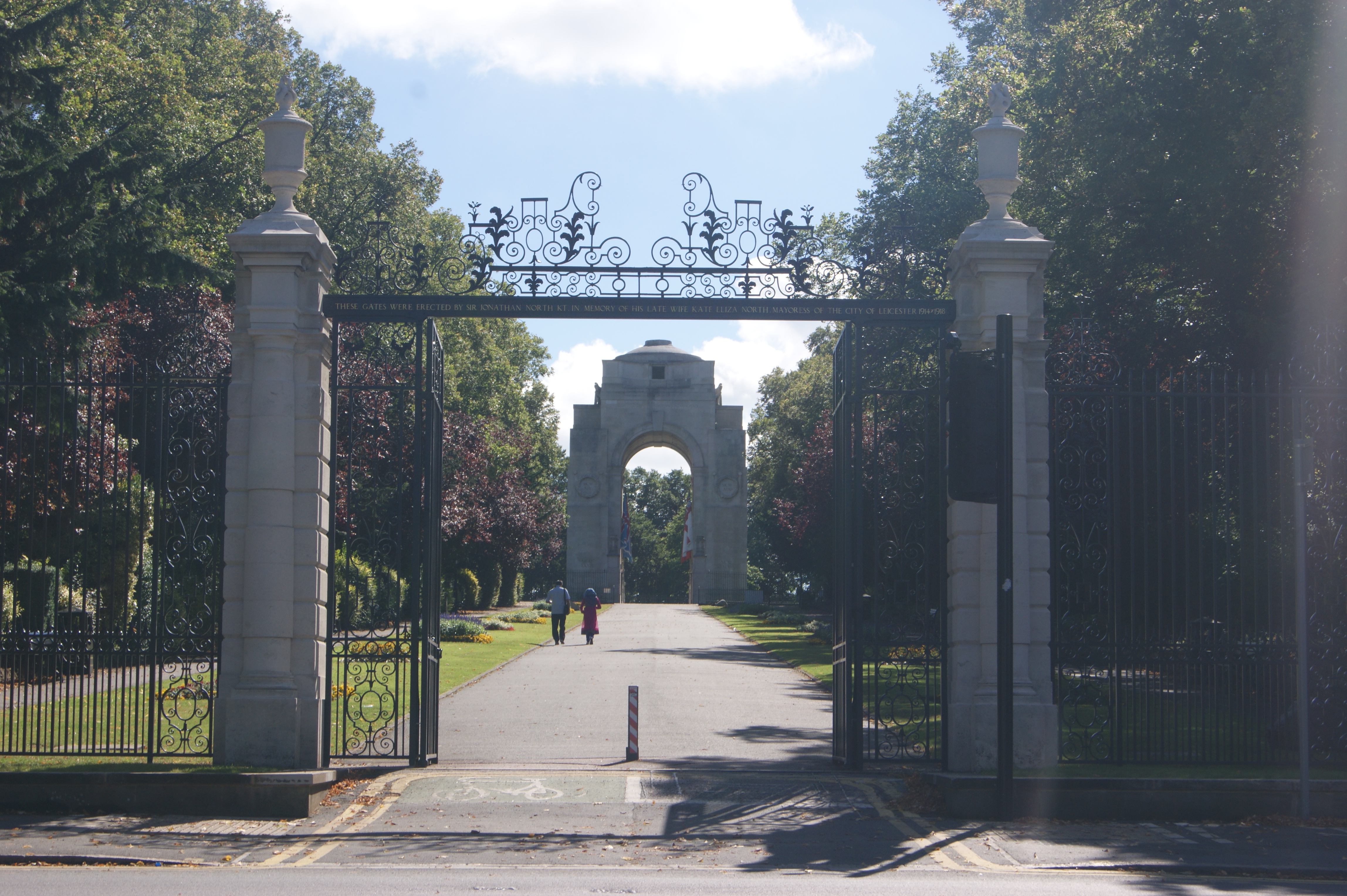 The Peace Walk, leading to the Arch of Remembrance, seen from University Road in Leicester, England